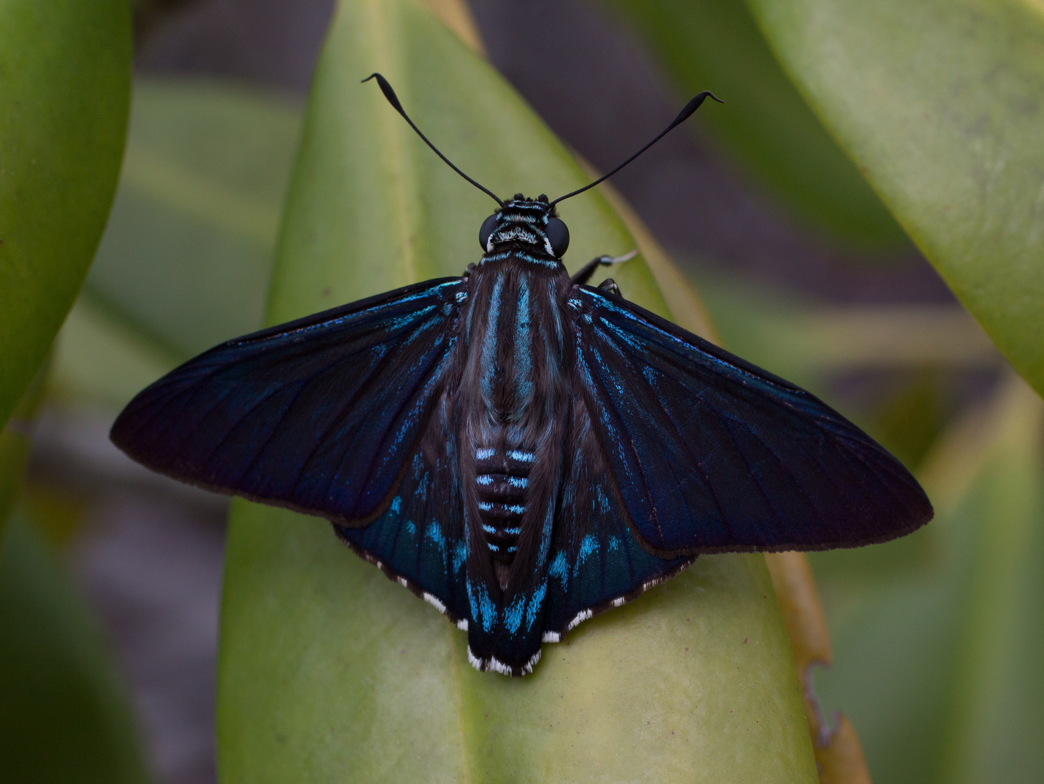 Phocides pigmalion (Mangrove Skipper) in the Mangrove forests of Desembarco del Granma national park. Cuba